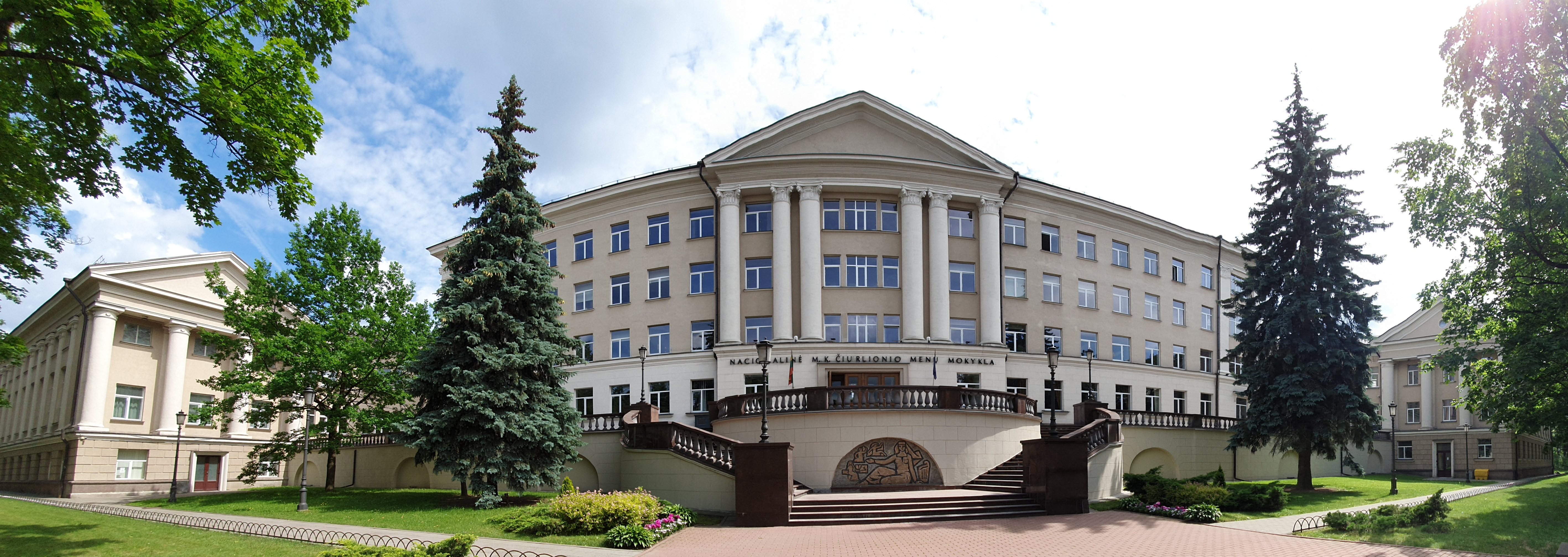 Panorama of the National M. K. Čiurlionis School of Art main façade.